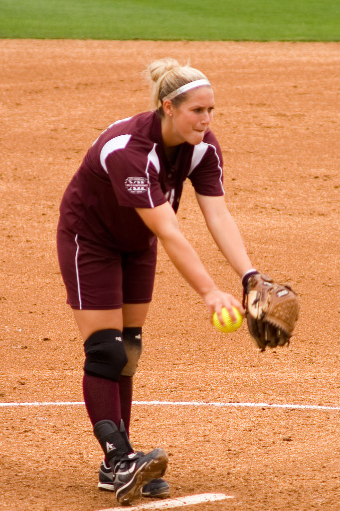 Aggie pitcher Megan Gibson pitches A&M to a Big 12 sofball victory over Iowa State, March 25th, 2007.